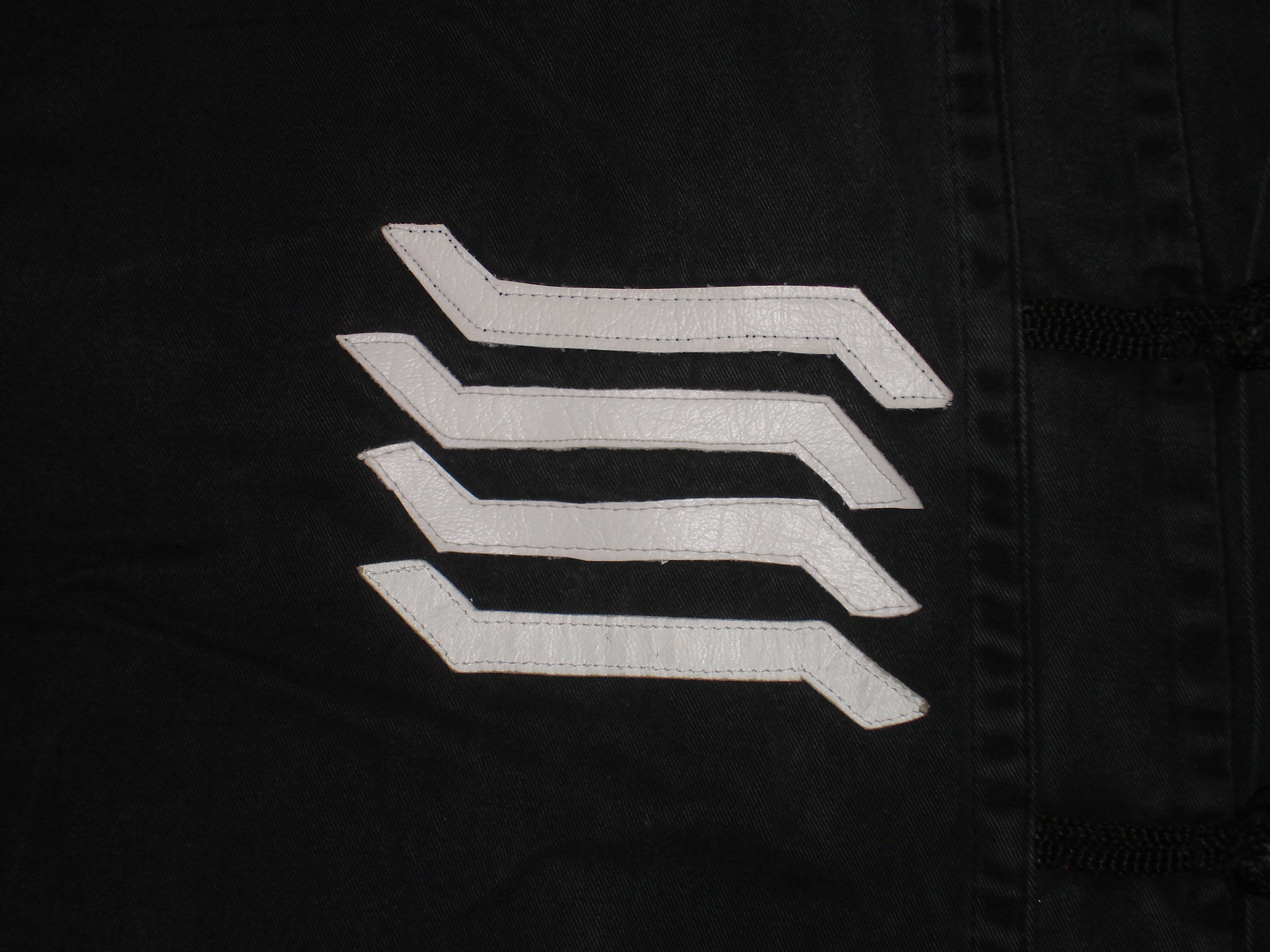 Stripes on the right breast on a Kungfu To'A training jacket showing the degree of a student (here: fourth form Samsamae)